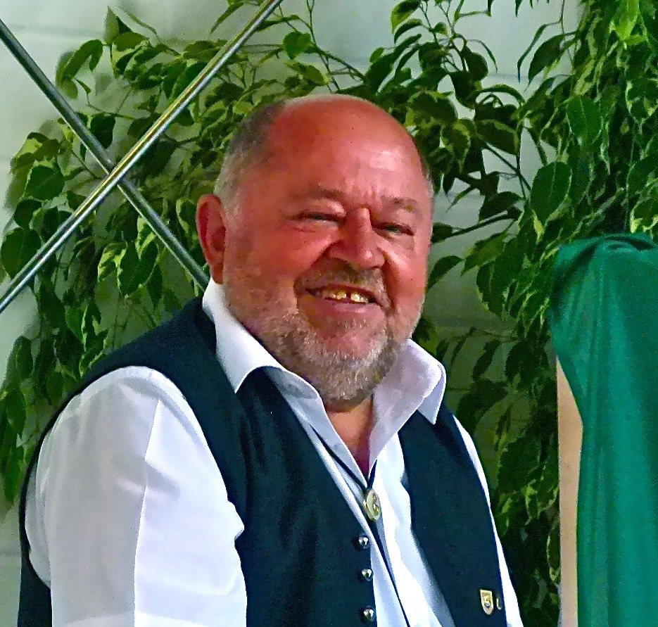 Anton Bleiziffer, German musician